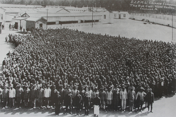 A picture of 4200 Mine workers at the Simmer and Jack mine. Taken some time between 1904 and 1910